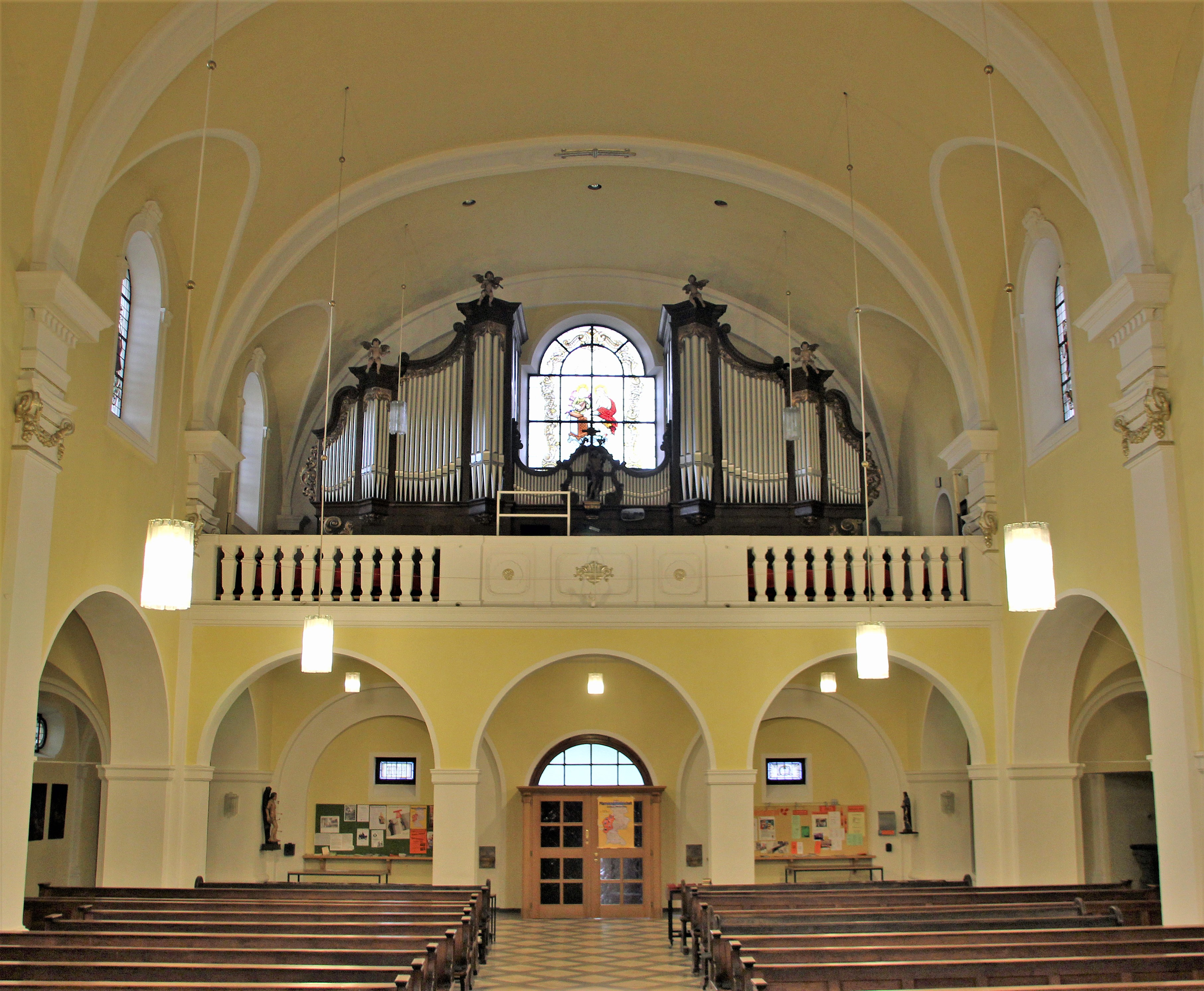 St. Johannes Church in Koblenz